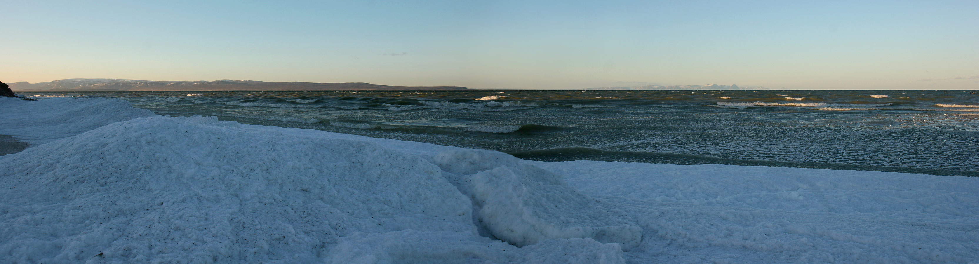 Dunes of river ice, cast ashore by wind, surf, and tide from Húnaflói. Vatnsnes to the east, and Ballafjöll in the Westfjords to the northeast. November 21 13:07 Iceland, November 2007 Photo by me user debivort (or friend, with permission given to upload and license freely).